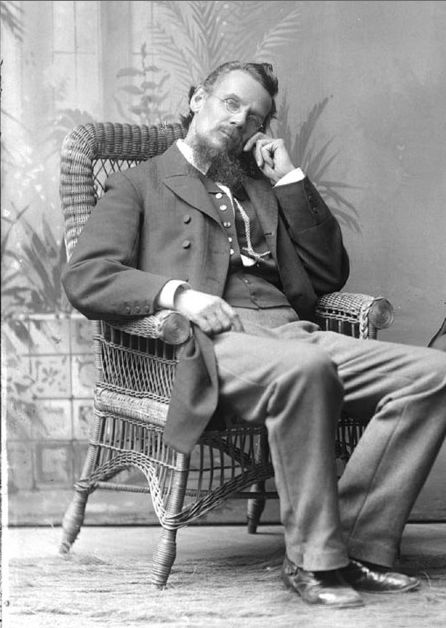 John Horbury Hunt, designer of Camelot, Kirkham, and other homes